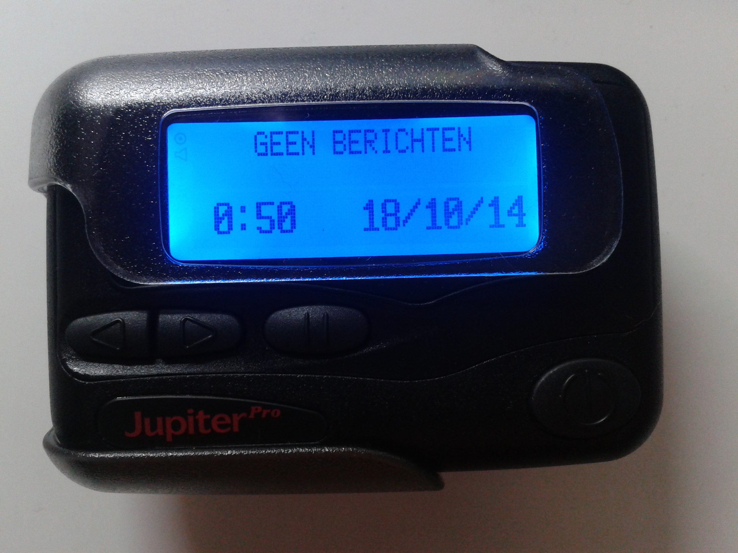 Picture of the Apollo Jupiter Pro v9.1 Pager (P2000).